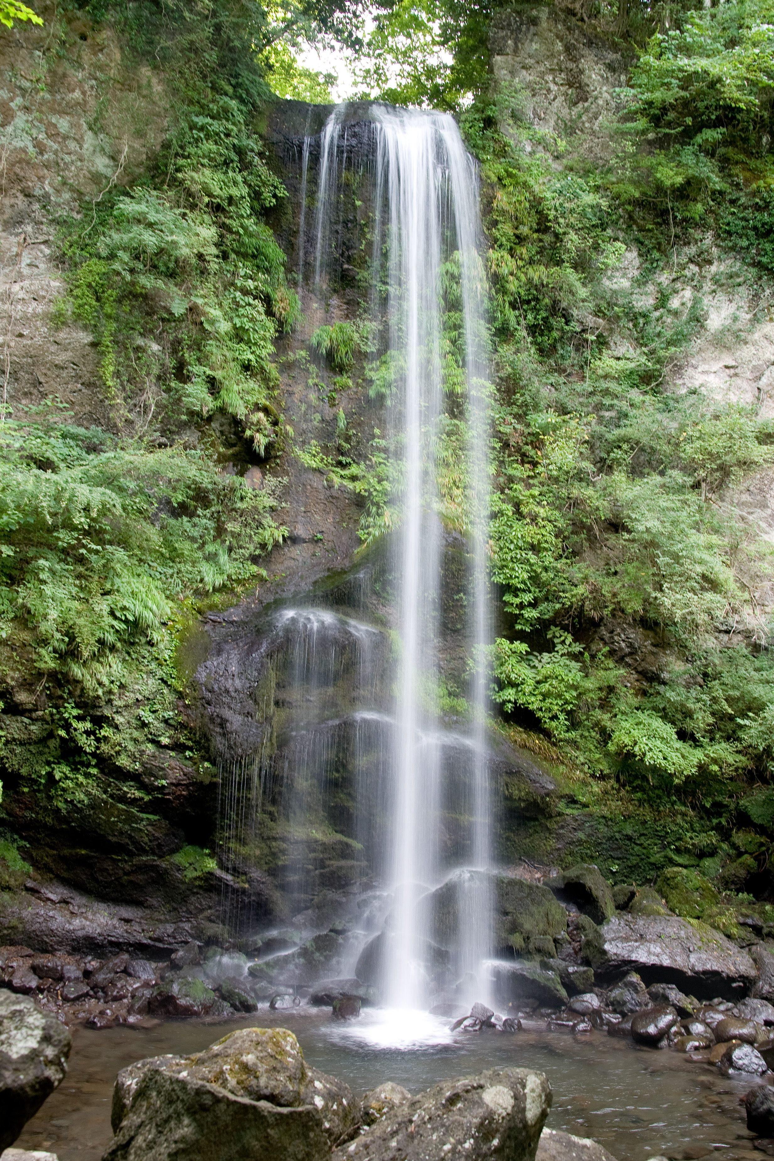 Yuhi Falls in Minamiashigara City, Kanagawa Pref, Honshu, Japan.